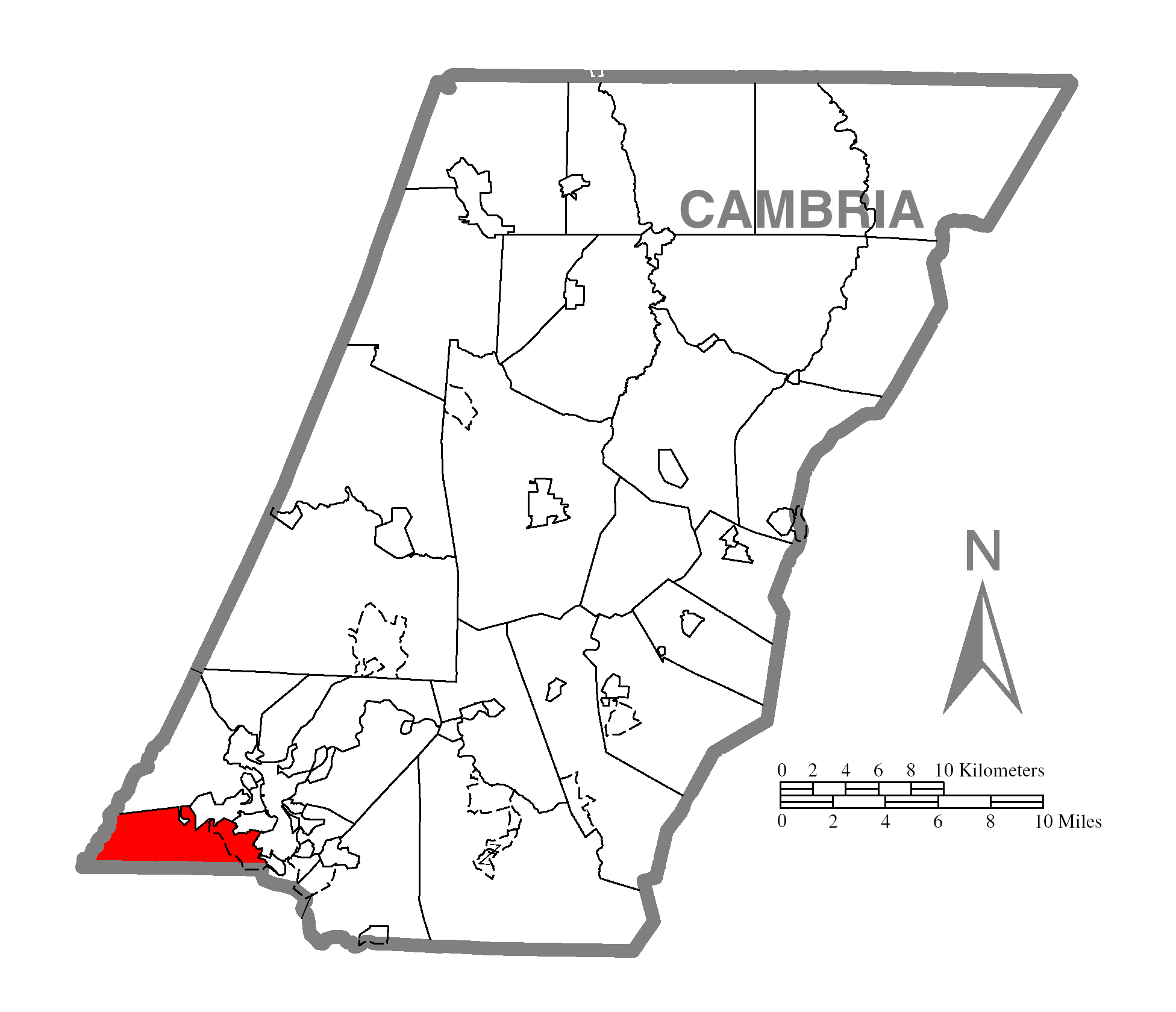 A map of Cambria County showing Upper Yoder Township, Pennsylvania (alternate) highlighted on the map.